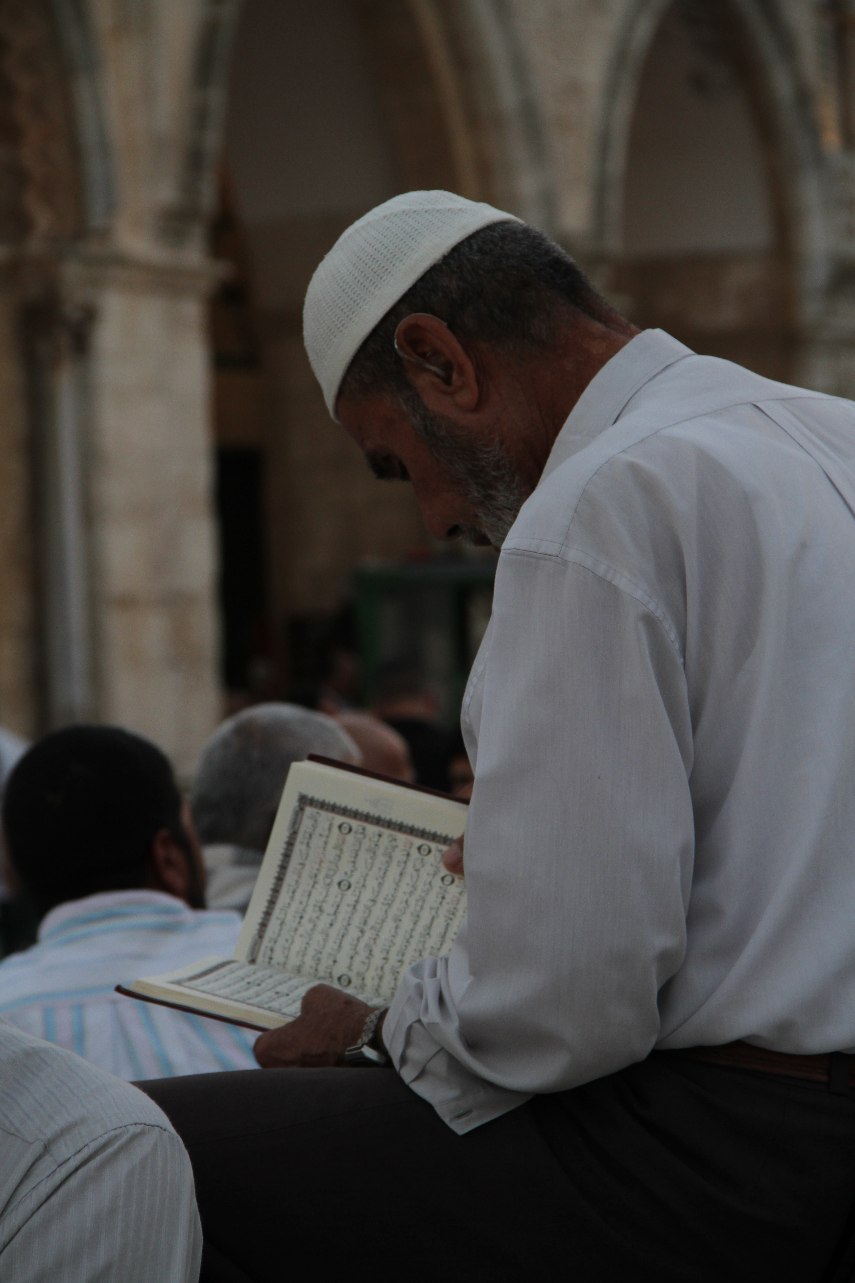 Cities in Israel